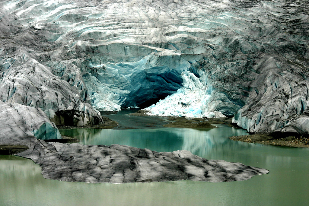 Trift glacier near Gadmen, Switzerland